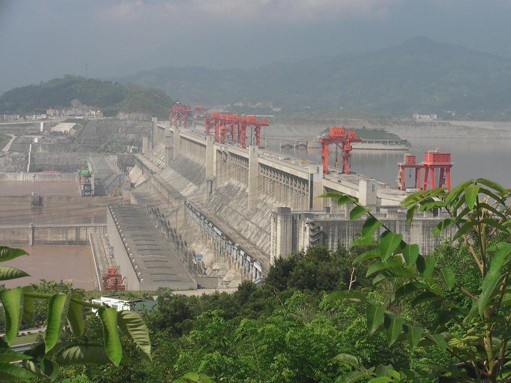 The following is the author's description of the photograph quoted directly from the photograph's Flickr page. "The largest electricity generating plant in the world. Though this controversial dam across the Yangtze river was built primarily for flood management. "